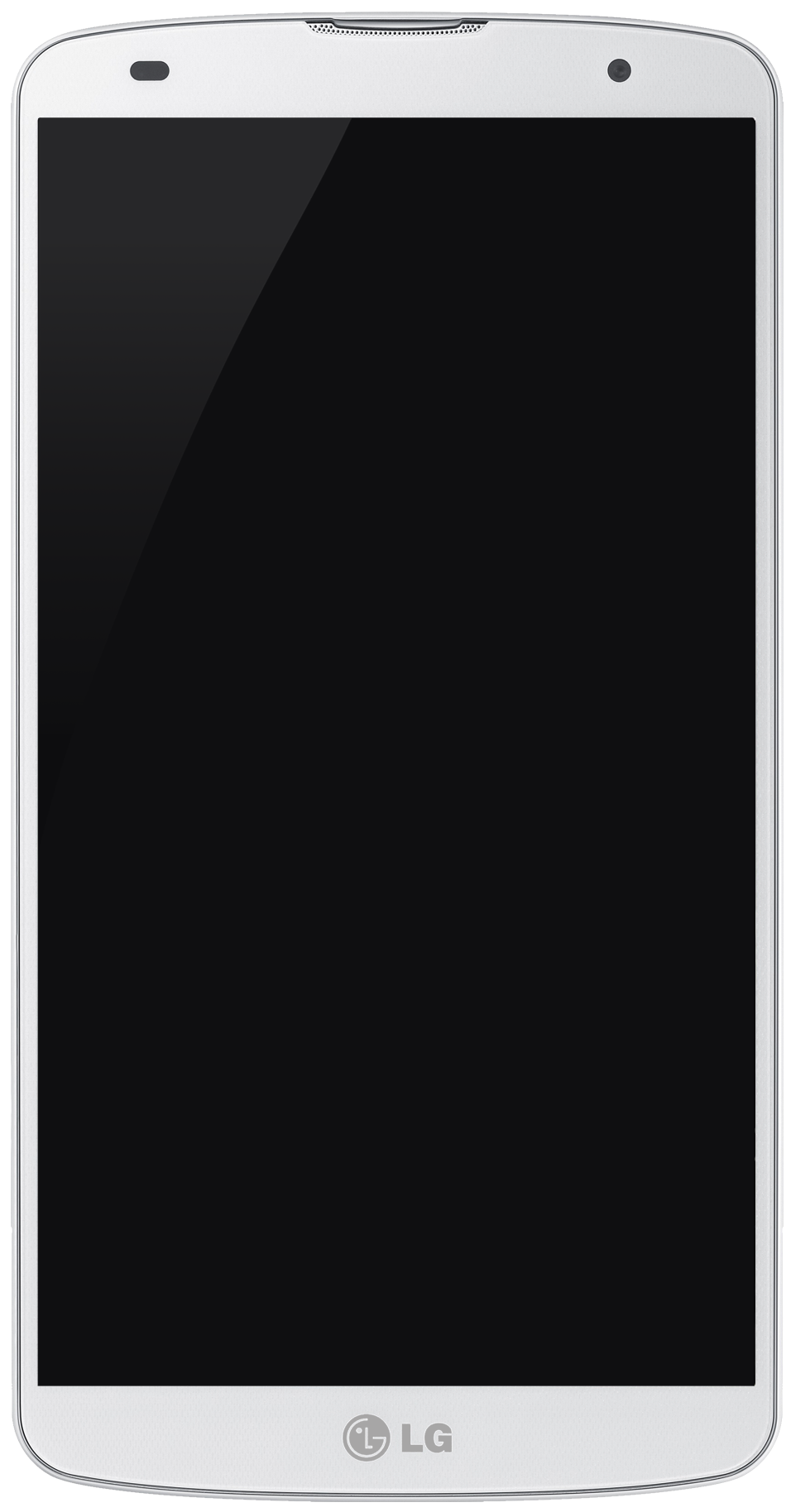 LG G Pro 2 render